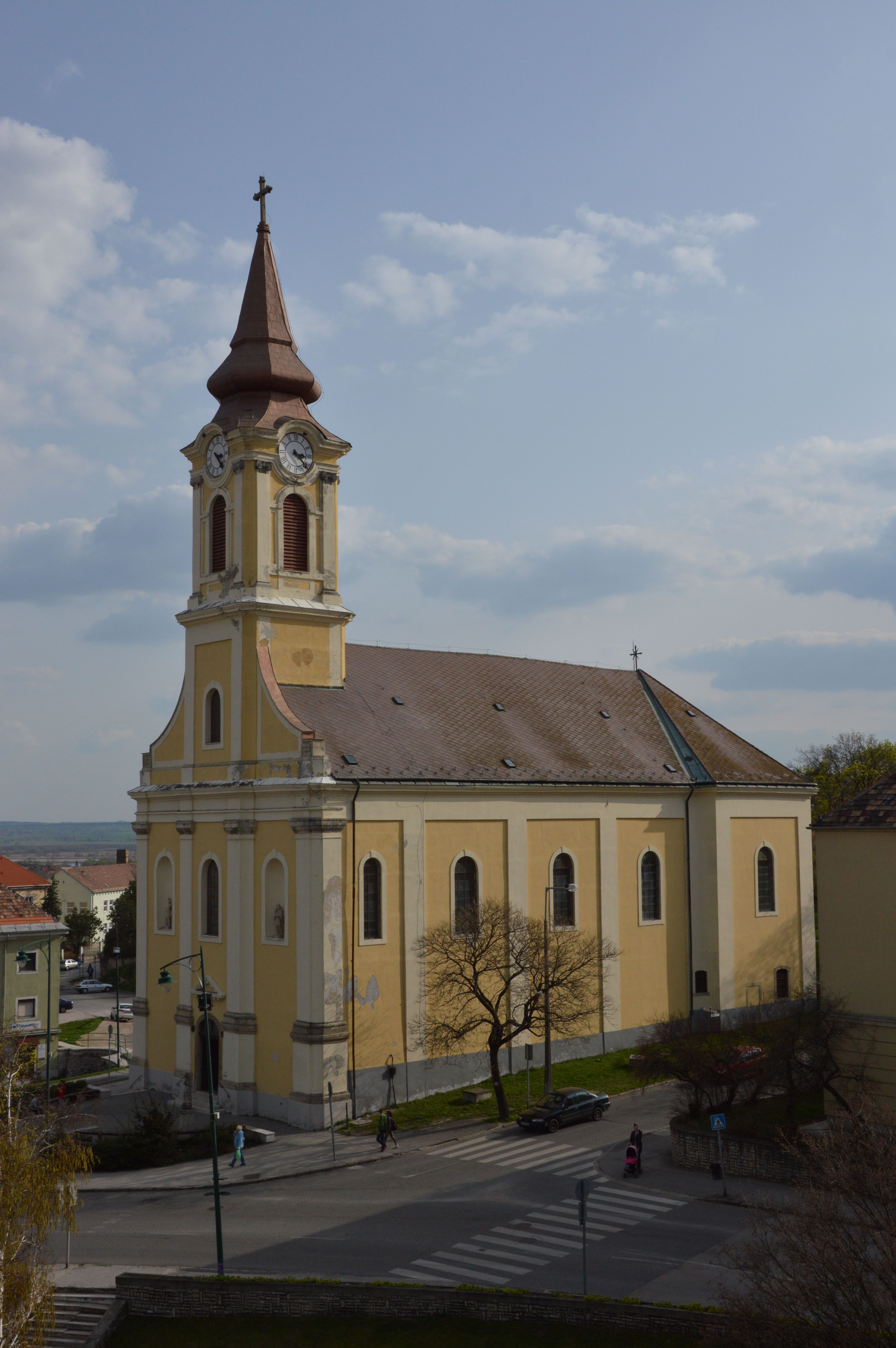 Listed Roman Catholic Church in Várpalota, Hungary from the wall of Thury Castle